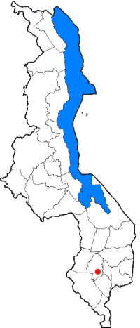 Map showing Location of Blantyre in Malawi.